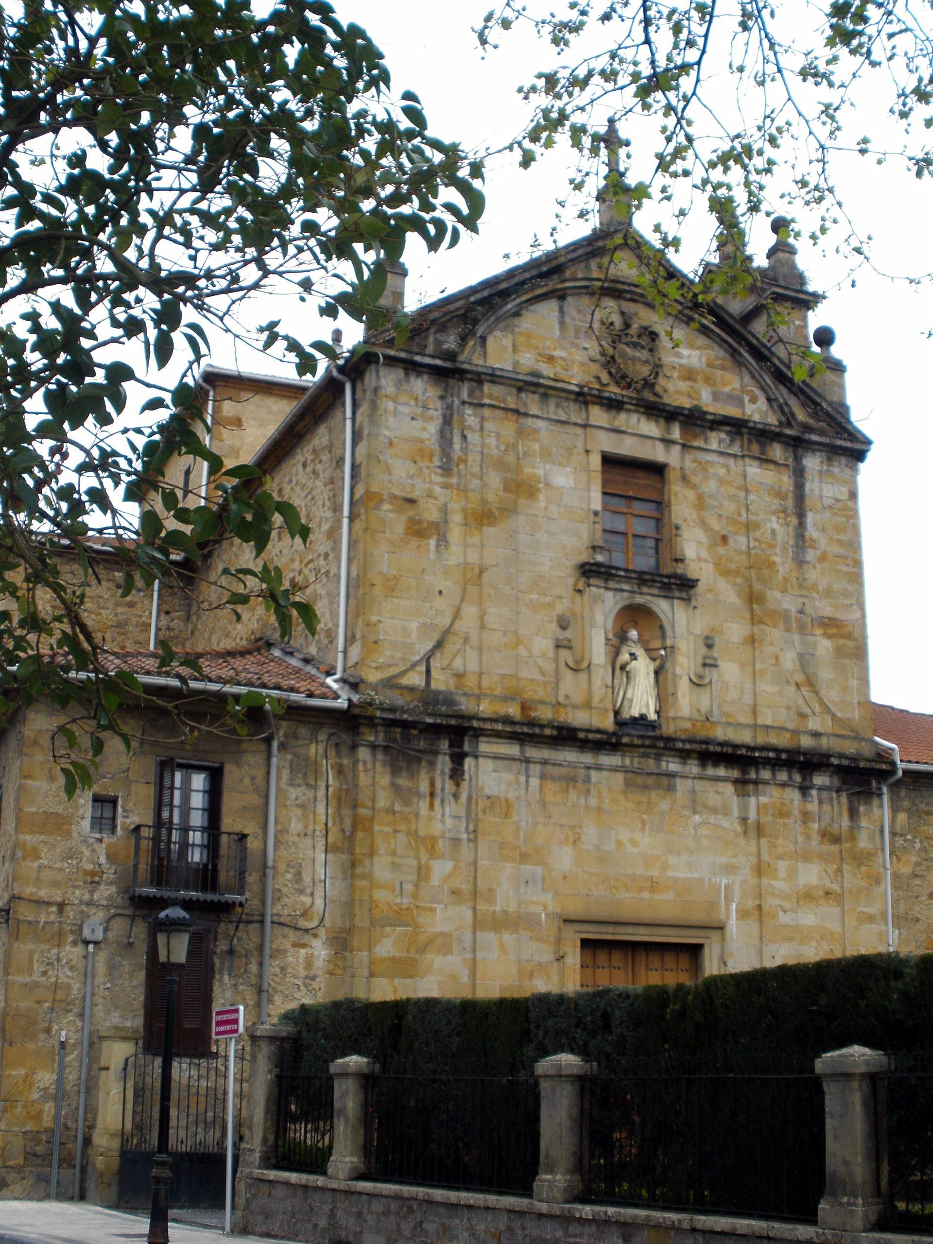 Monasterio de Santa Ana (MM Cistercienses) de Lazkao (Guipúzcoa, País Vasco, España)